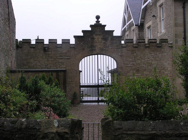 Gate Entrance : Dated 1886. Monogramed and dated gate adjoining the old parsonge Christ Church : East Layton